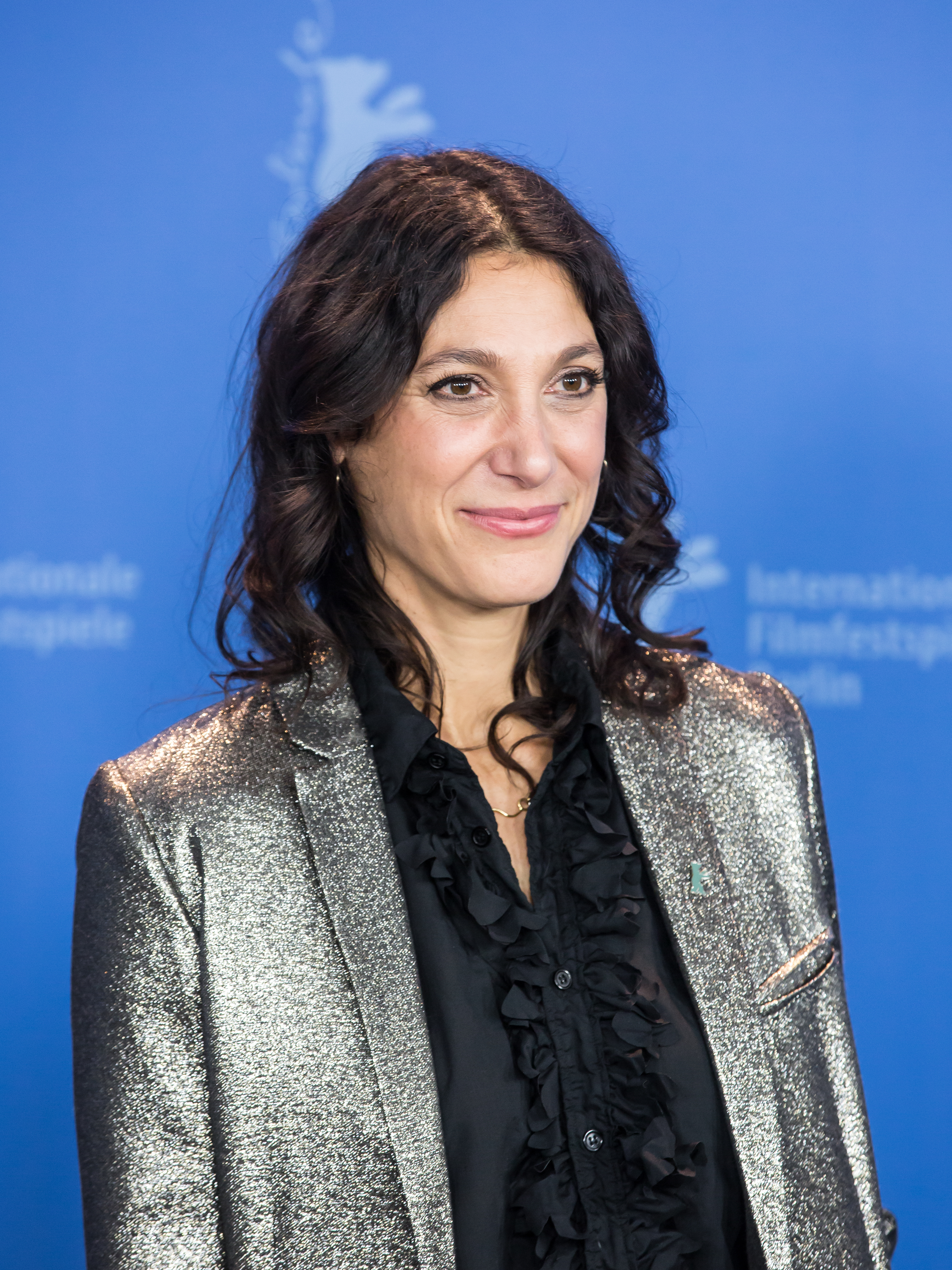 Movie director Emily Atef at the Berlinale 2018